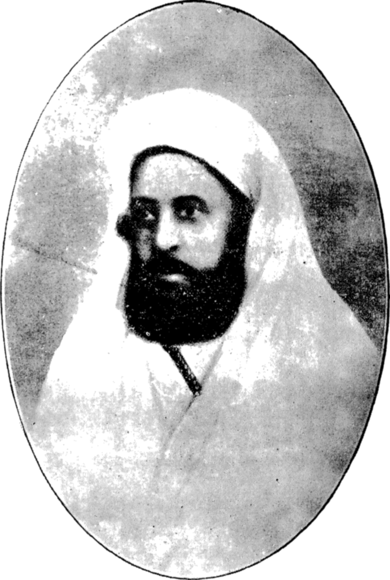 Photo of king Hassan I dated 1873.